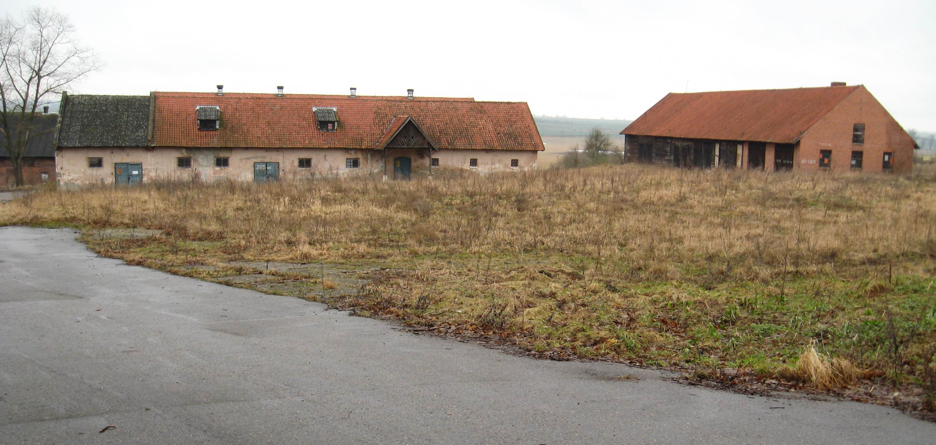 Garbno - Google Maps - Google Earth